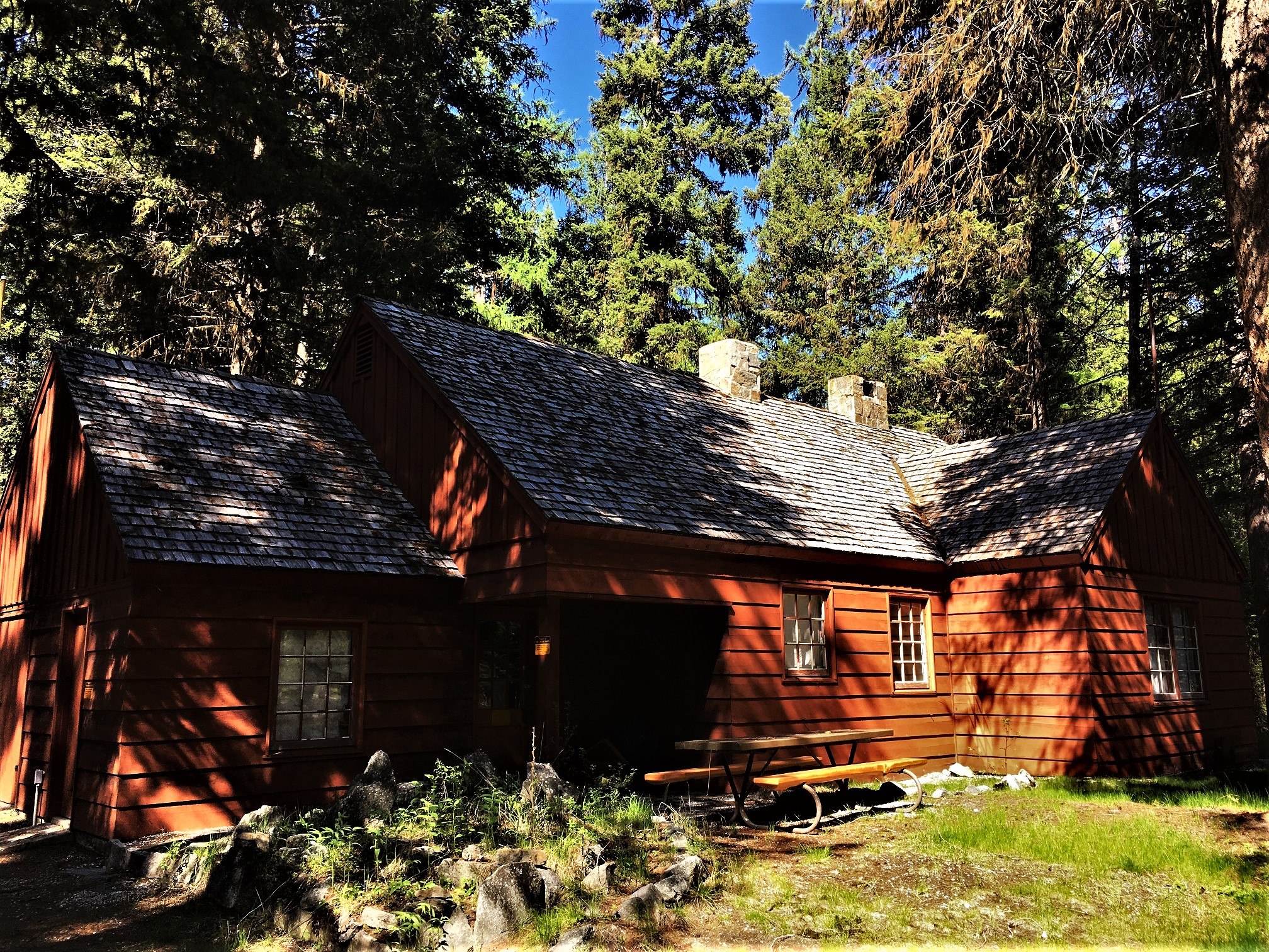 Lost Lake Guard Station Rear elevation faces the lake.